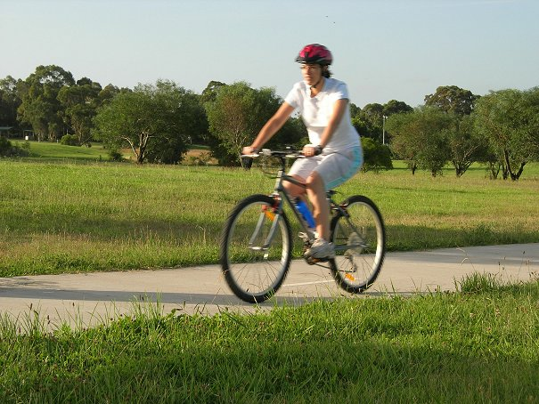 Bike riding in George Kendall Riverside Park, Ermington, New South Wales.